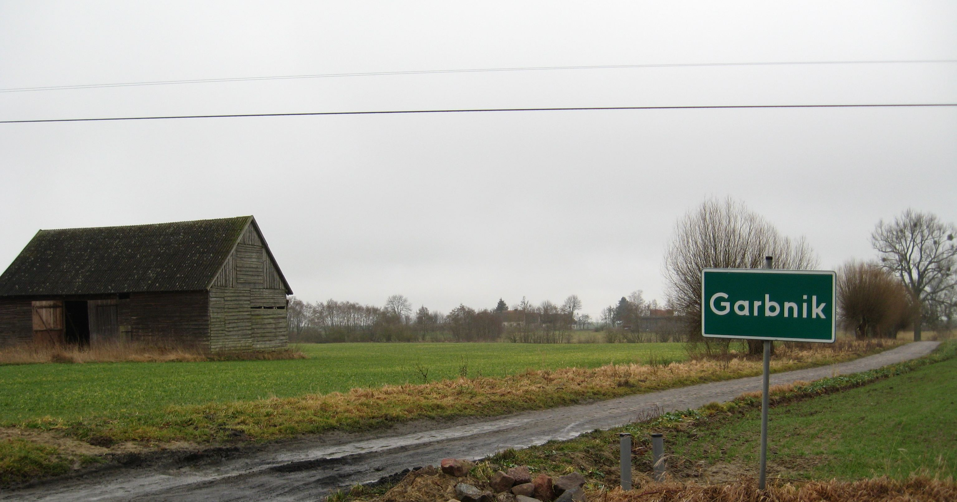 The village Garbnik in Poland - OpenStreetMap (Info)